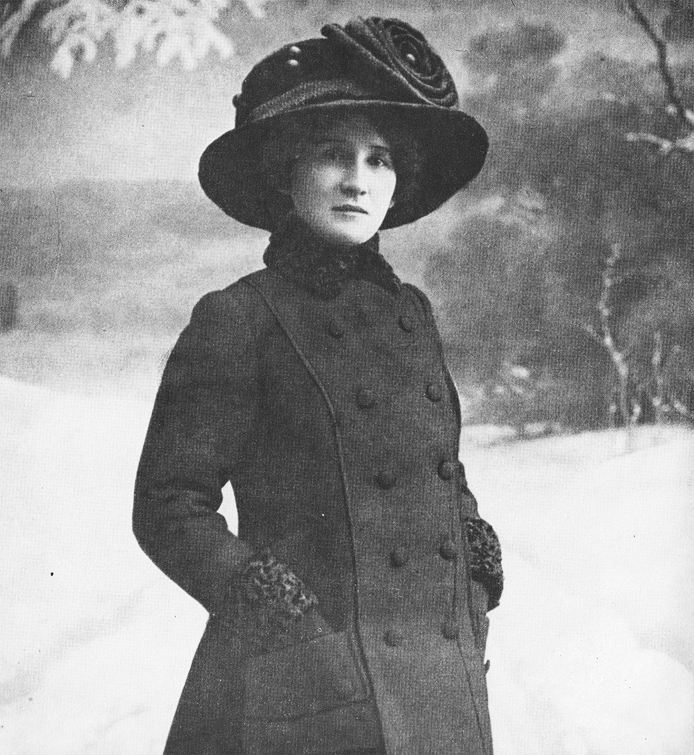 Zdenka Hásková; czech intellectual woman